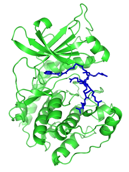 Co-crystal structure of ARC-670 (blue) in complex with cAMP-dependent protein kinase catalytic subunit (green). (PDB: 3AGM, ref: (2010) J Mol Biol 403 66-77)